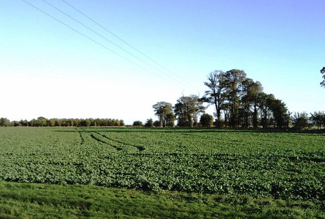 View across field from Bradwell Road, Tillingham